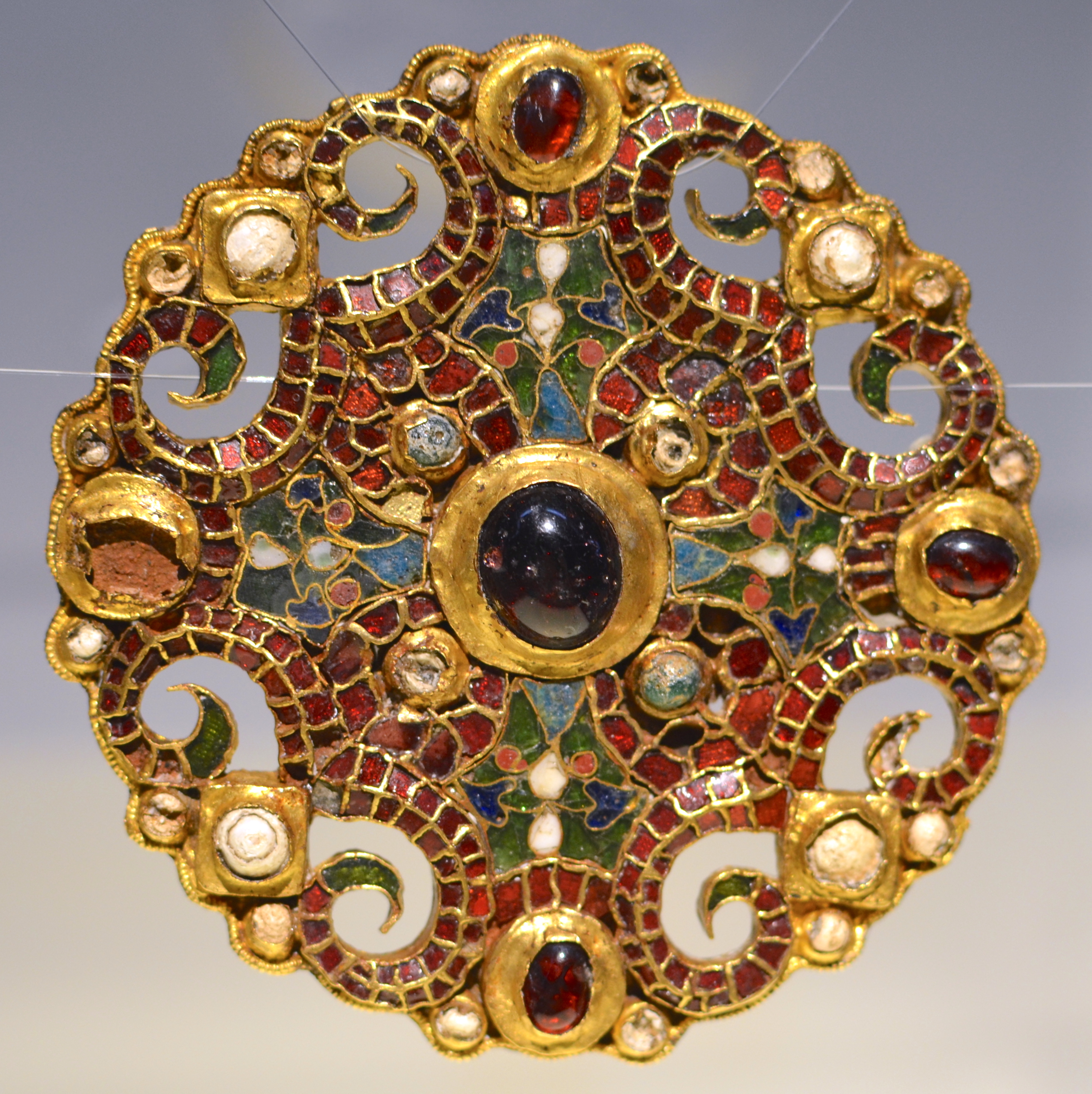 Carolingian brooch found in a well in 1969. It most closely resembles liturgical precious metalwork made close to the court of Charlemagne around 800 AD. The stones and the email cloisonné form two overlapping crosses, Christian symbols.